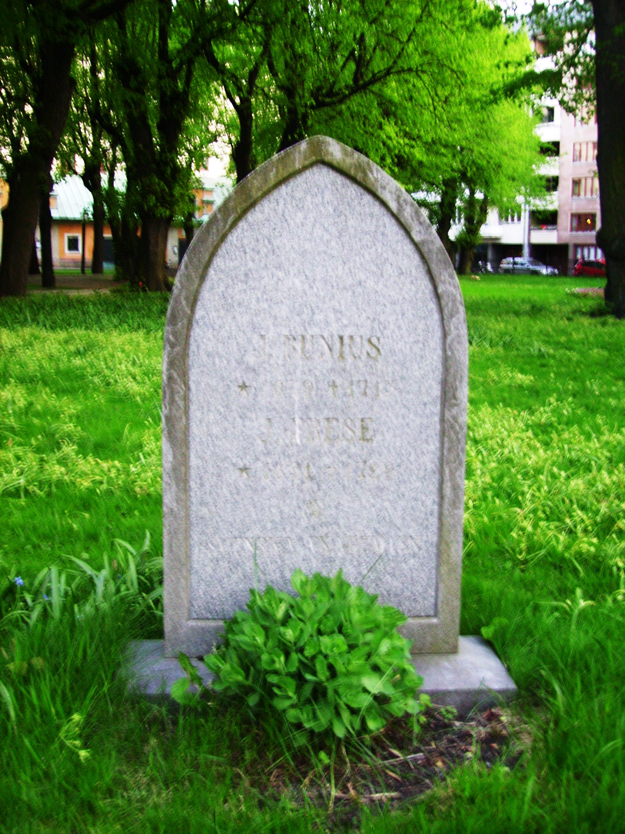 Picture of Runius grave at Maria churchyard in Stockholm